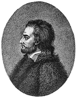 Jacob Johan Anckarström, the assassin of King Gustav III of Sweden.